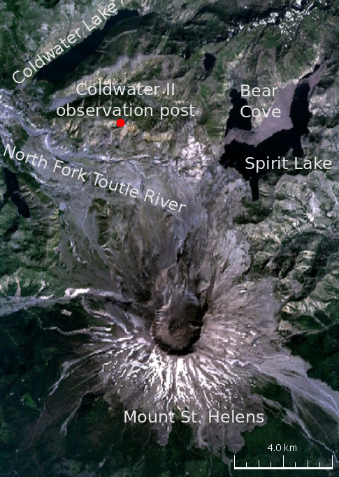 Location of the USGS Coldwater II Observation Post at Mount Saint Helens where Dr. David Johnston was killed. Image: NASA LANDSAT7 visible color. Image retrieved via NASA World Wind.